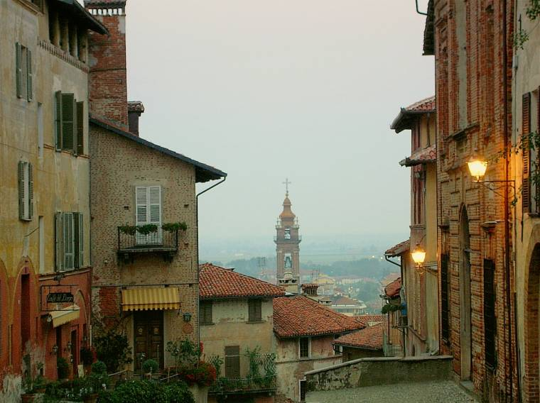 Saluzzo, early evening